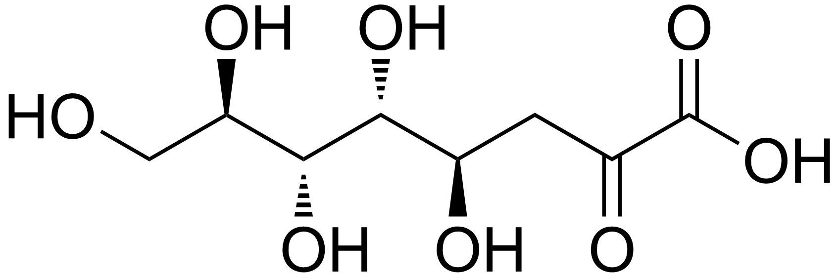 Chemical structure of 3-deoxy-D-manno-oct-2-ulosonic acid (KDO)